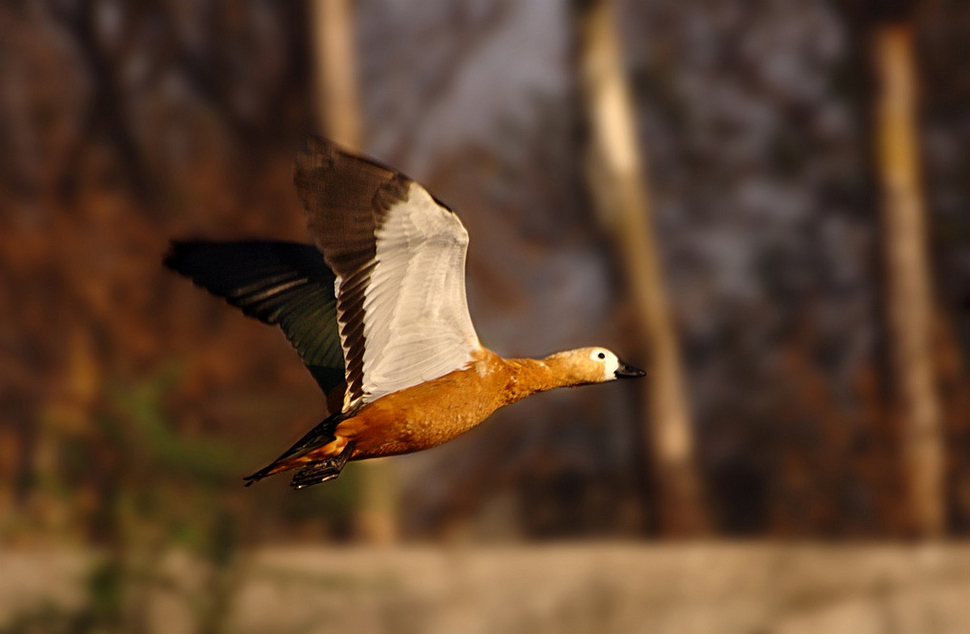 A Ruddy Shelduck (also known as Brahminy Duck) flying in Pune, Maharashtra, India.